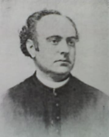 This is and old photograph of Patrick Joseph Dillon , an Irish Catholic priest, founder of The Southern Cross newspaper.